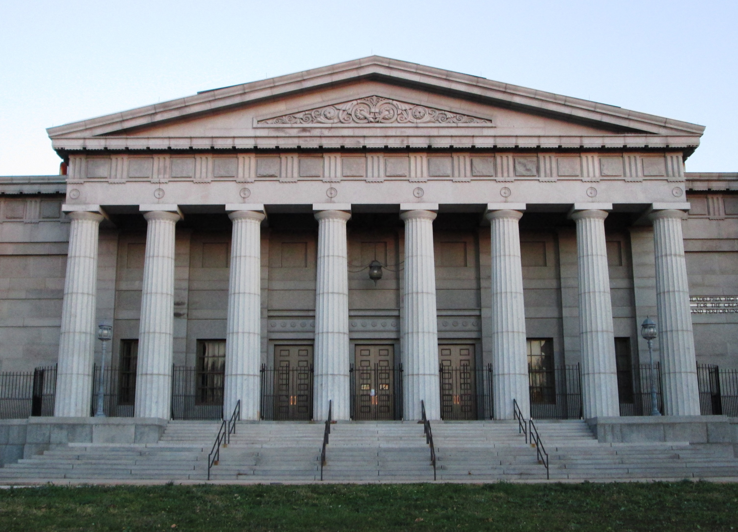 The Ridgeway Library building, at 900 South Broad Street between Christian and Carpenter Streets, was constructed in 1873-78, and was designed by Addison Hutton in the Greek Revival style. The library was a bequest to the Library Company of Philadelphia by Dr. James Rush to honor his wife, Phoebe Ann Ridgeway. The Library Company left in 1965, to a new building on Locust Street between South 13th and 14th Streets, also called the Ridgeway Library. Since 1997, the restored building, with a large addition in the rear, has been occupied by the Philadelphia High School for the Creative and Performing Arts.